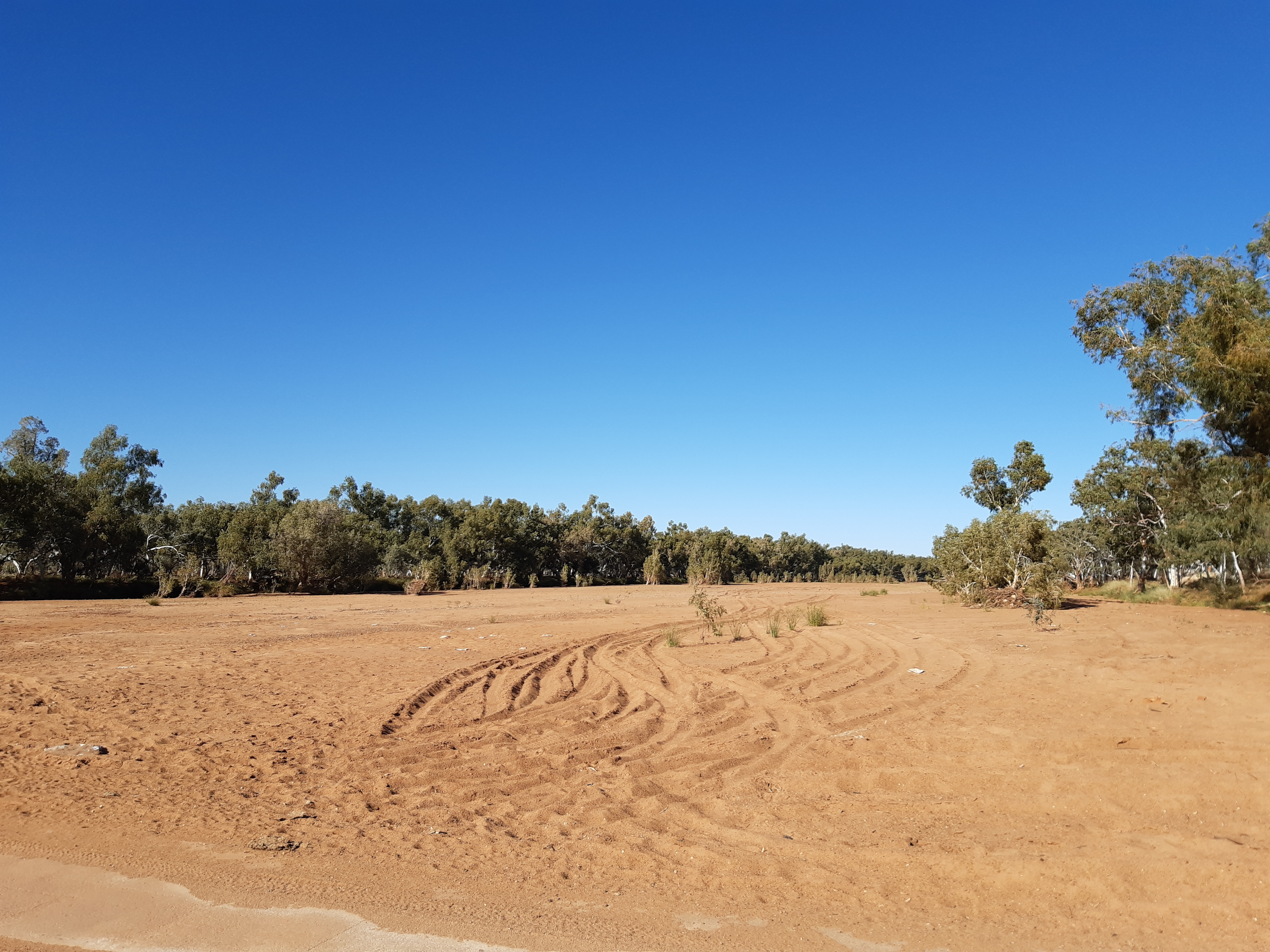 Lyons River at Ullawarra Road crossing, Western Australia, just south of the turn off to the Kennedy Range National Park.